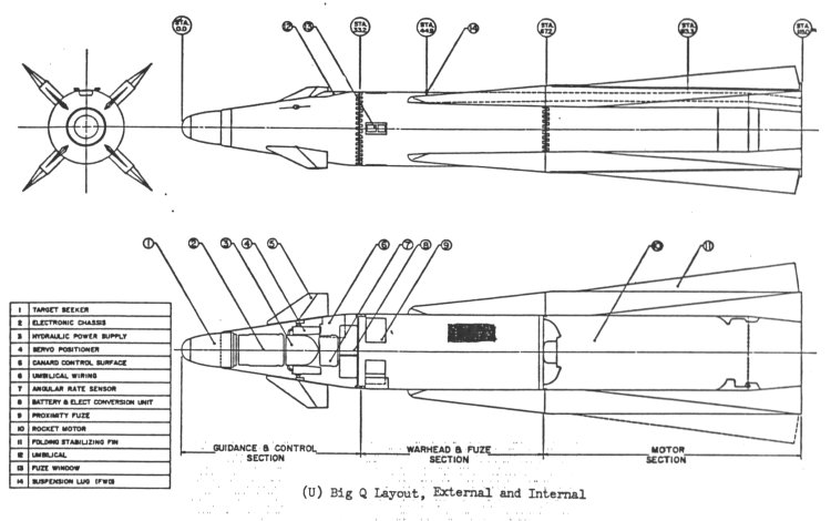 Arrangement drawing of ZAIM-68A "Big Q" air-to-air missile.